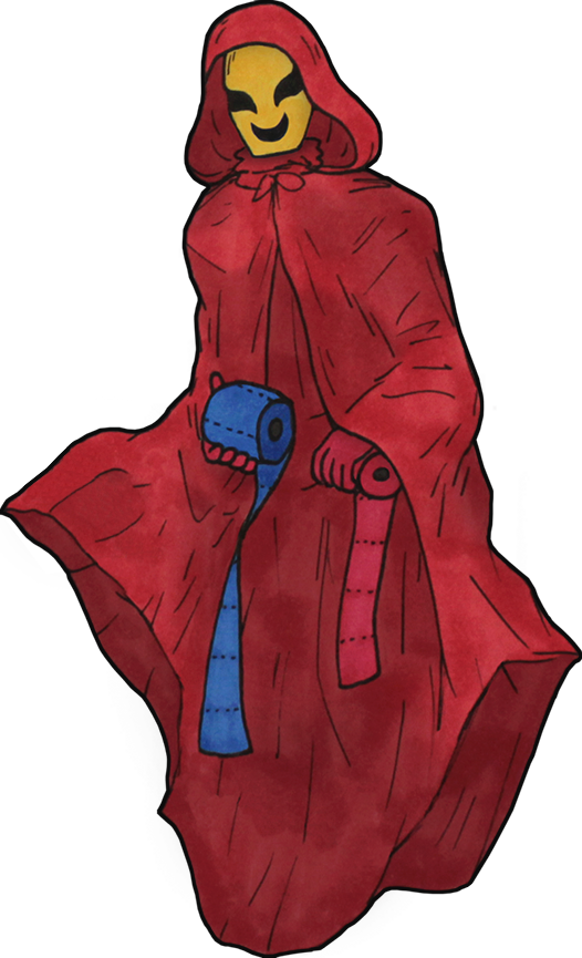 This is an artistic rendition of Aka Manto (Japanese: 赤マント) by Matthew Hoobin. This illustration was created using a pencil, an eraser, a Copic Multiliner SP black ink marker with a 0.3 tip, Caliart dual-tip alcohol-based colored markers, and Adobe Photoshop CC.